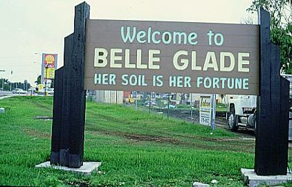 Old welcome sign for Belle Glade